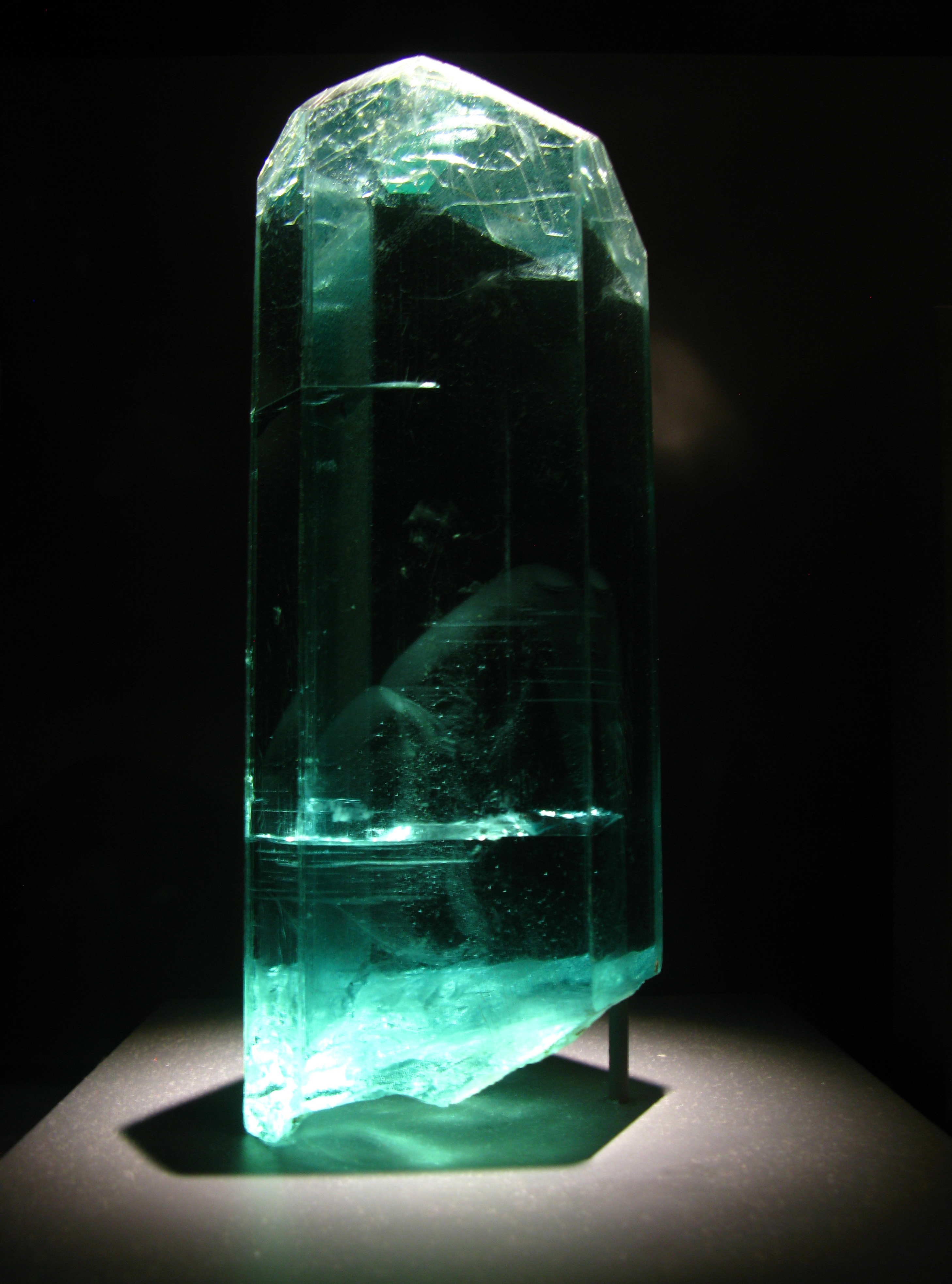 Aquamarine 15256 carats Minas Gerais, Brazil Smithsonian Natural History Museum, DC